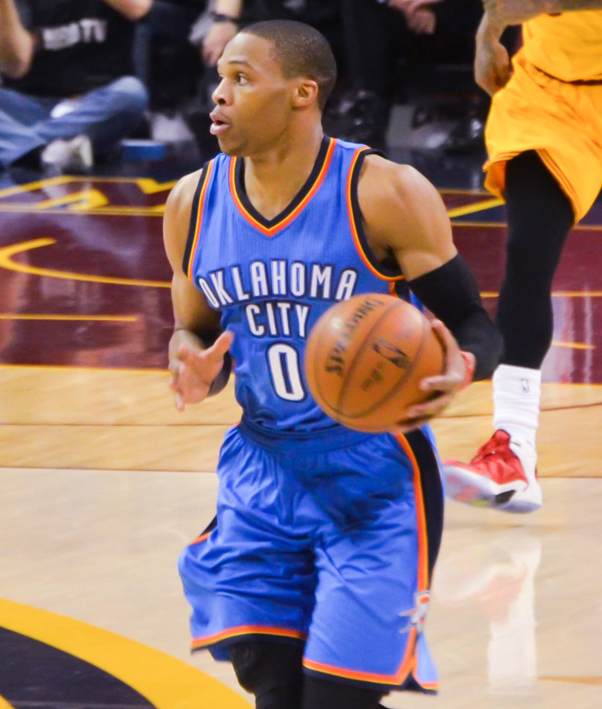 Westbrook playing for Oklahoma City Thunder